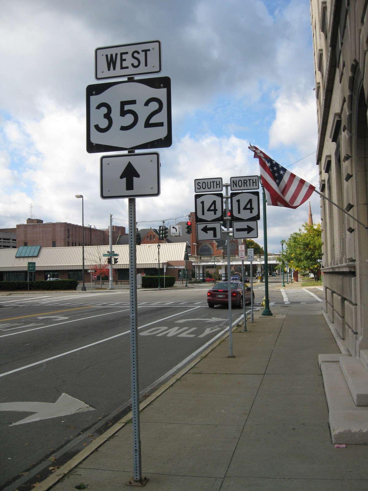 Heading eastward along New York State Route 352 in Elmira, New York towards the intersection with New York State Route 14.